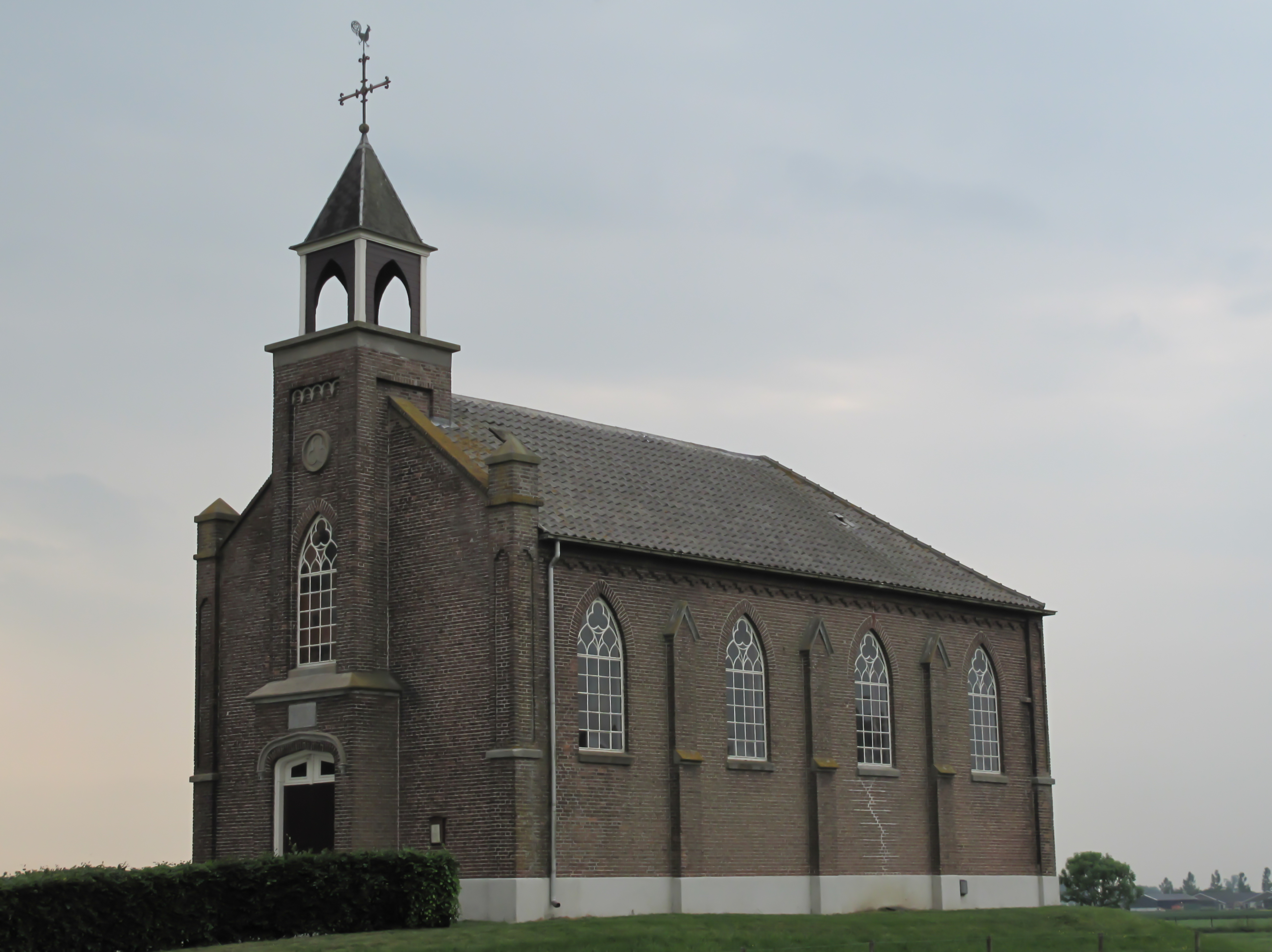 Homoet, reformed church